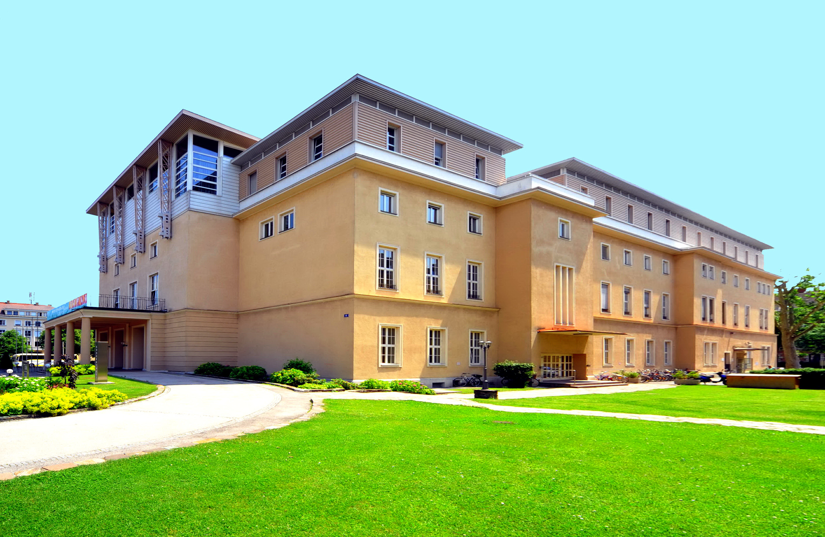 Music-hall on the Miesstalerstrasse #8, “Innere Stadt” (inner city), Klagenfurt, Carinthia, Austria, EU